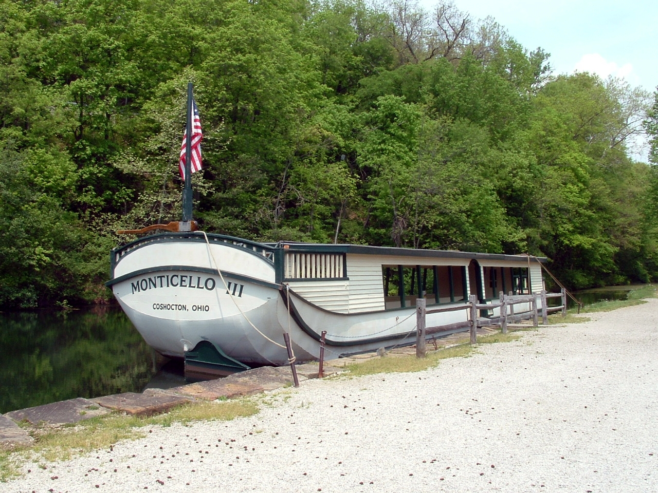 Restored canal boat, Ohio and Erie Canal, Coshocton, Ohio, USA